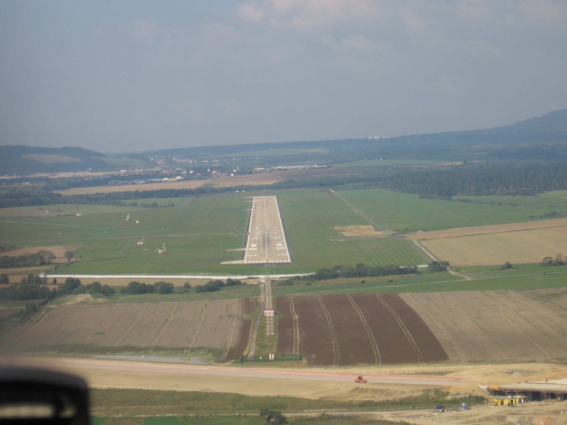 Landing strip of Poprad-Tatry airport.